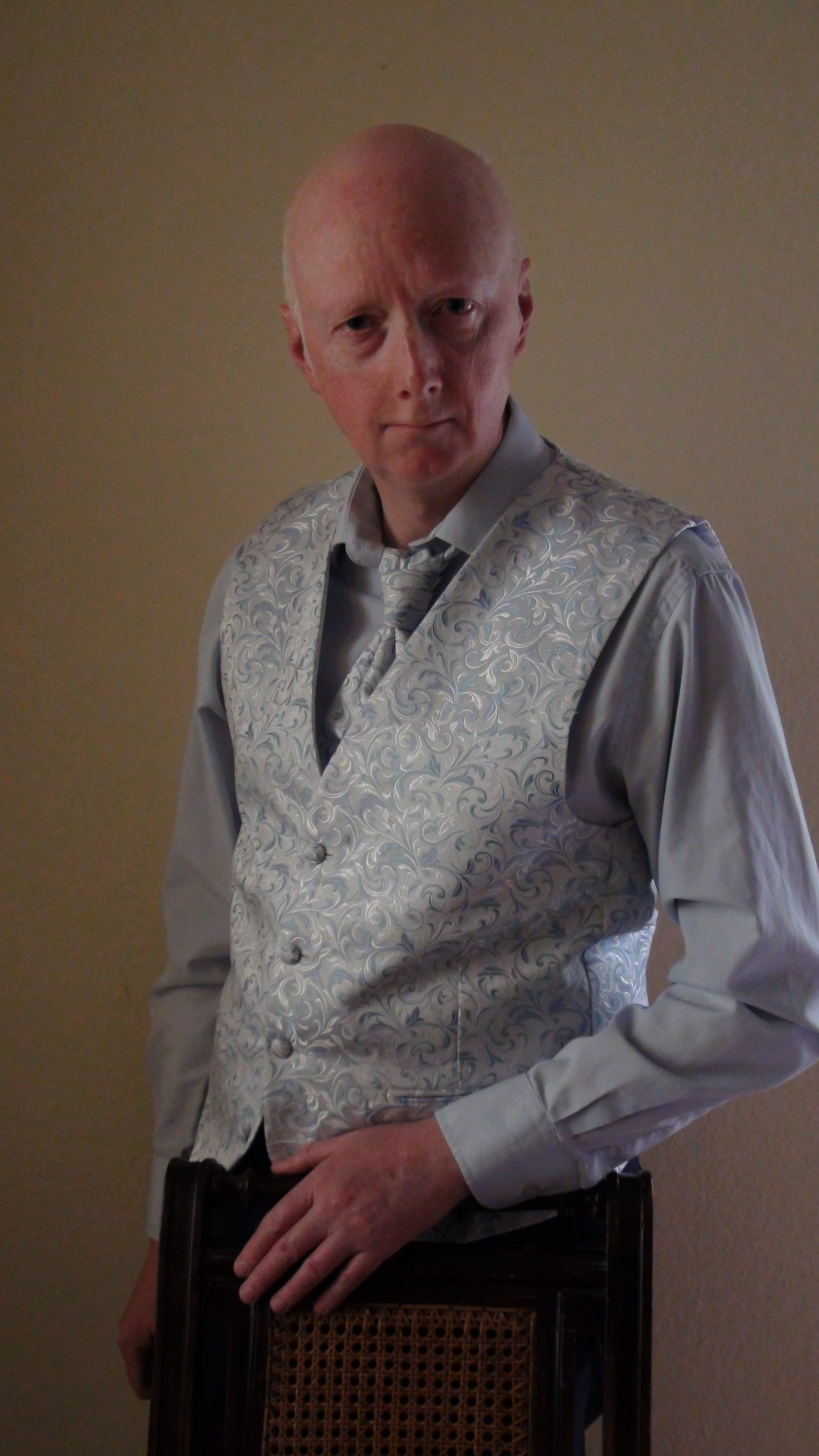 James Peace at home in Wiesbaden